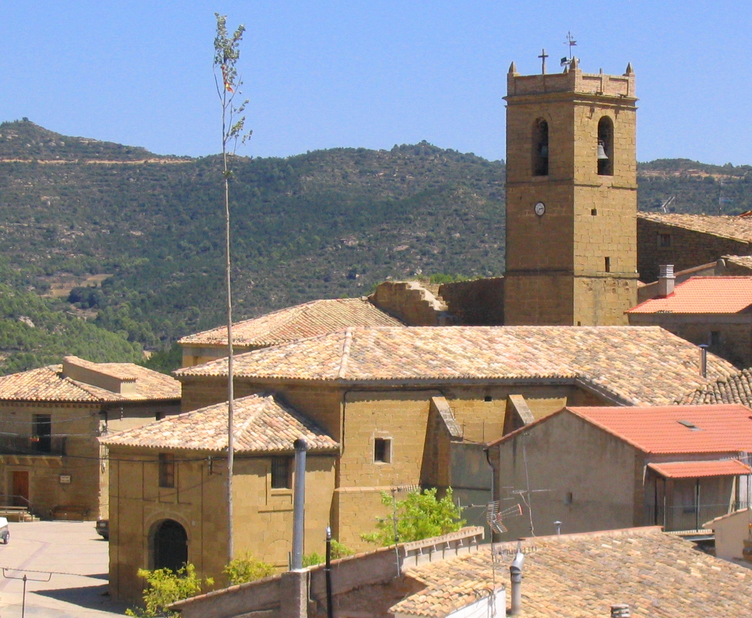 Parish Church of St John the Baptist (Orés) Aragonés: Ilesia parroquial de San Chuan Batista (Orés)